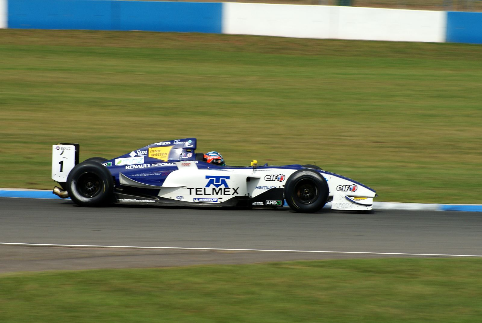 Salvador Durán driving for in the 2007 World Series by Renault season at Donington Park.